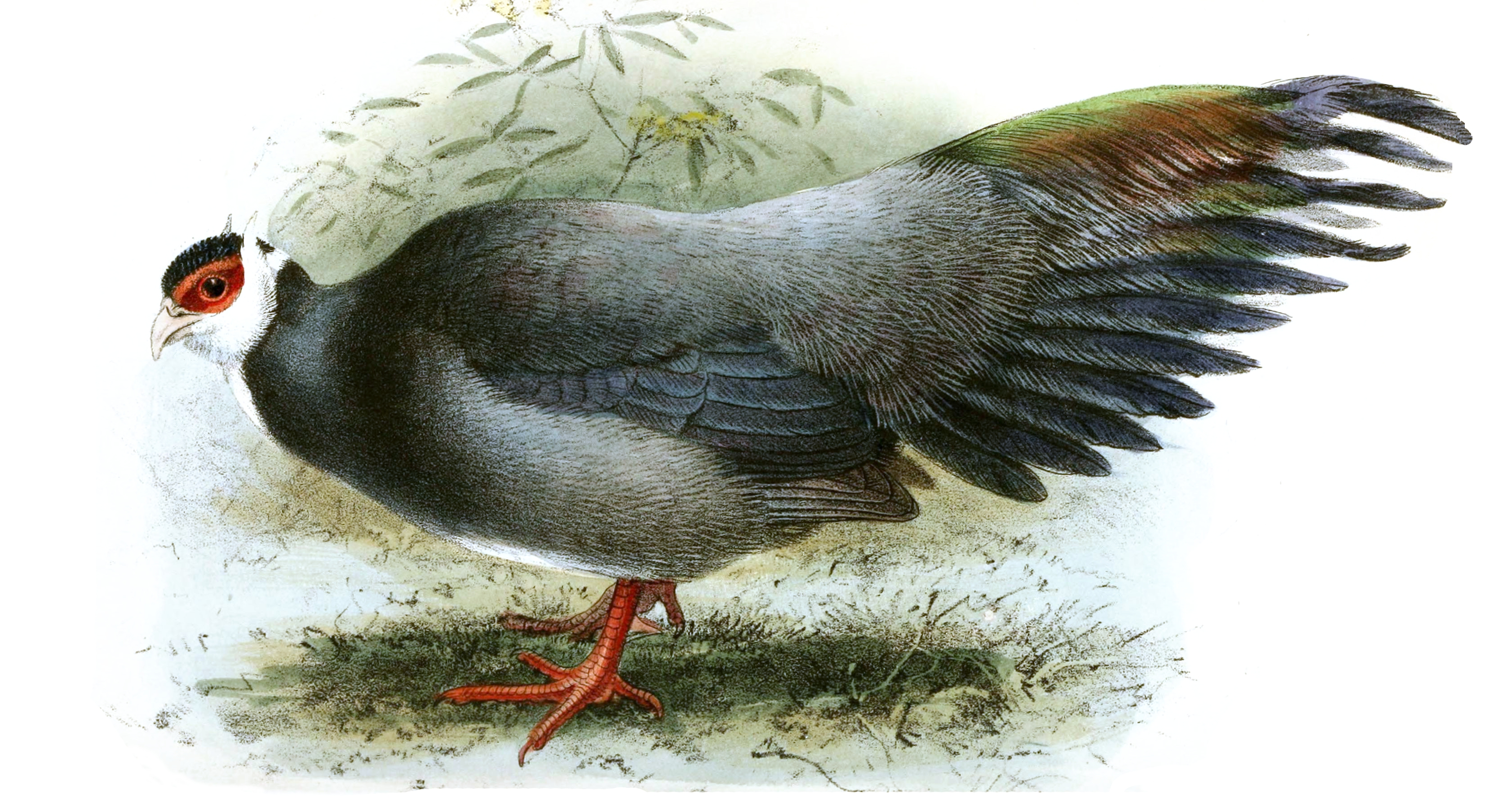 « Crossoptilon harmani » = Crossoptilon harmani (Tibetan eared pheasant)